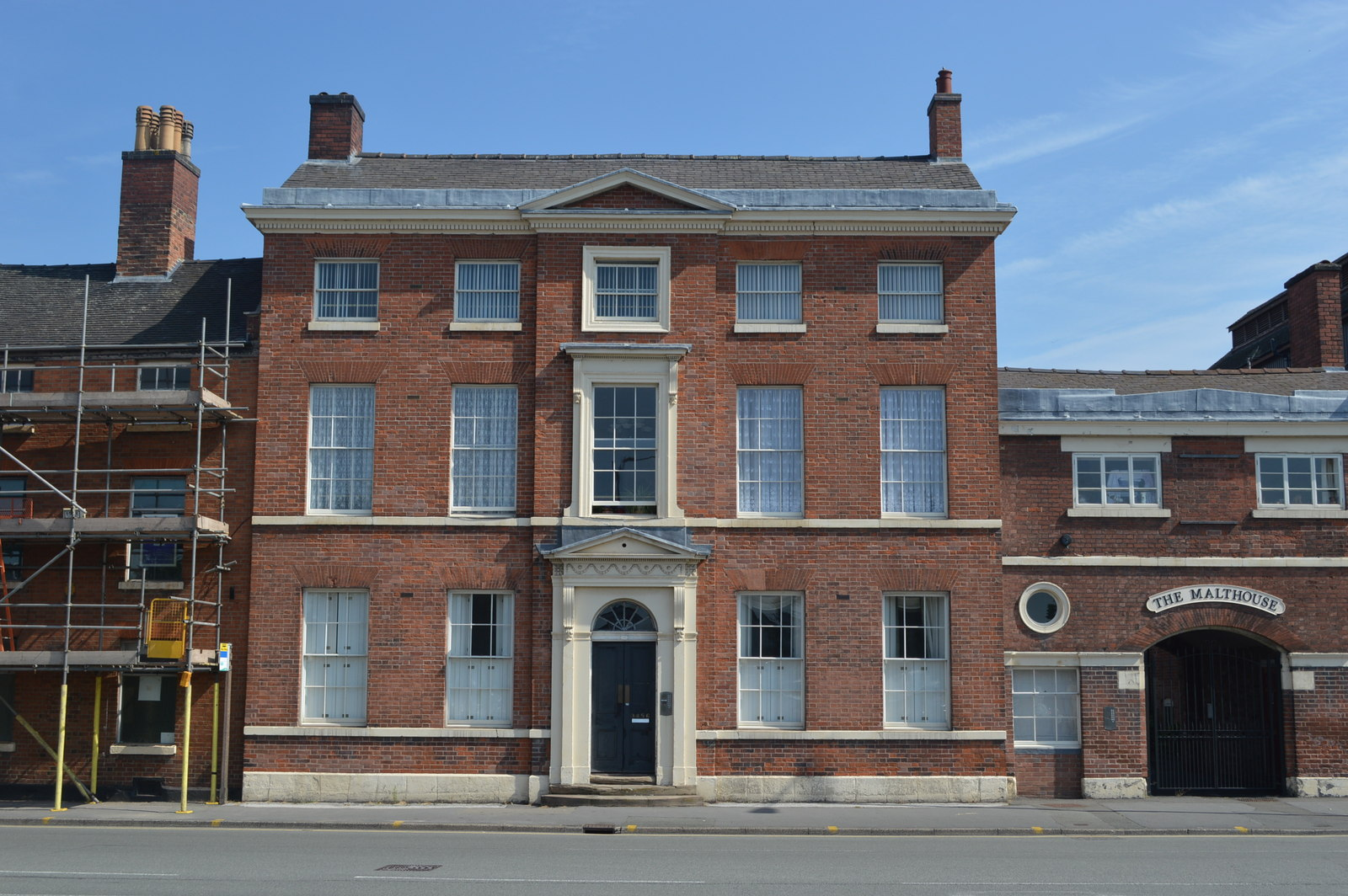 The Maltings - 167 Horninglow Street, Burton upon Trent, Staffordshire, England